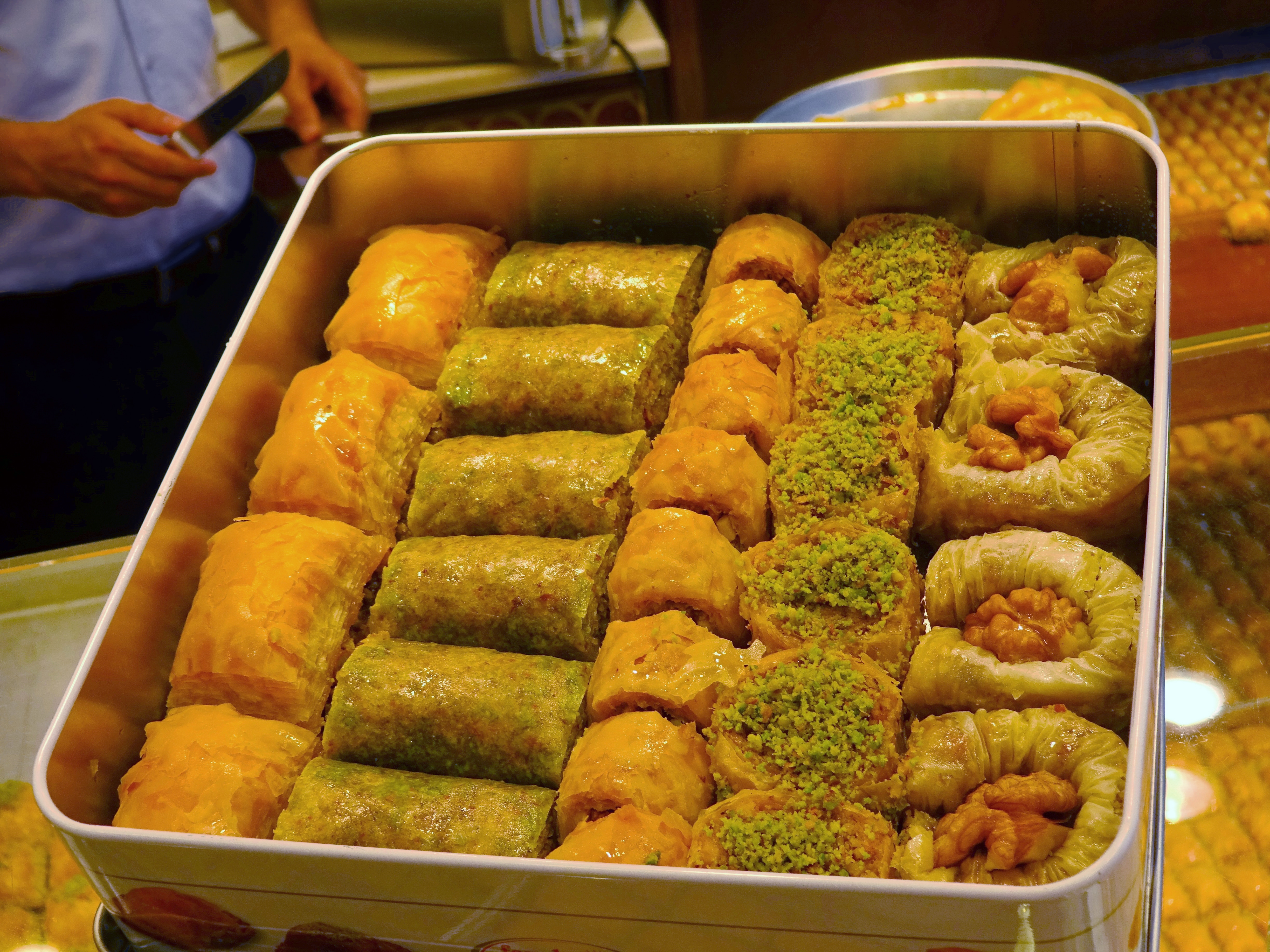 Sheets with different sweet dough particles that sells individually, or together as desired in tin cans. Photographed in a bakery in Taksim in Istanbul